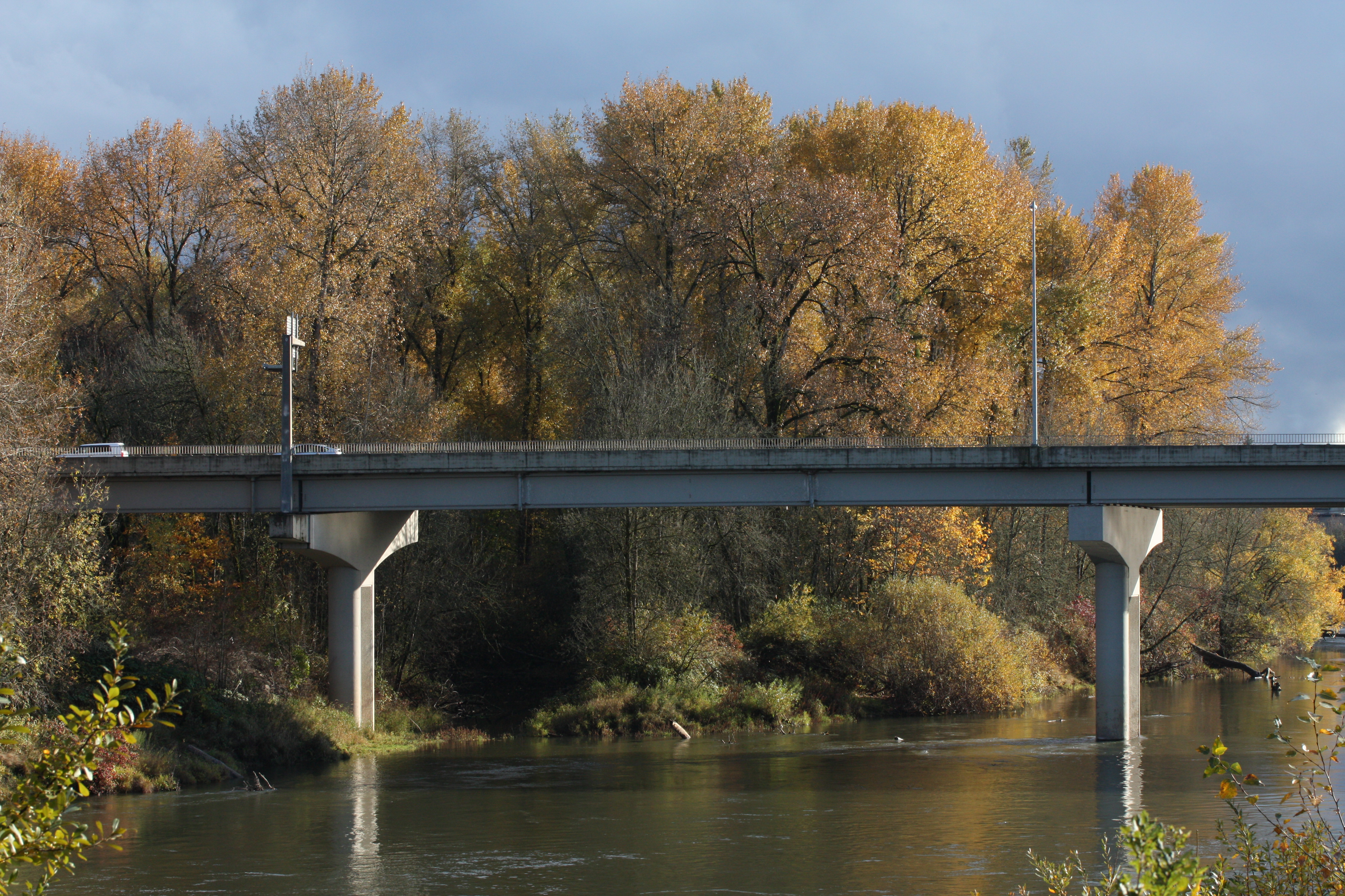 Oregon Route 34 bridge over the Willamette River with Populus trichocarpa behind